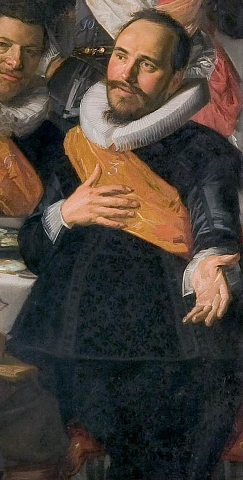 Nicolaes le Febure, detail of Officers of the St. George Civic Guard, Haarlem